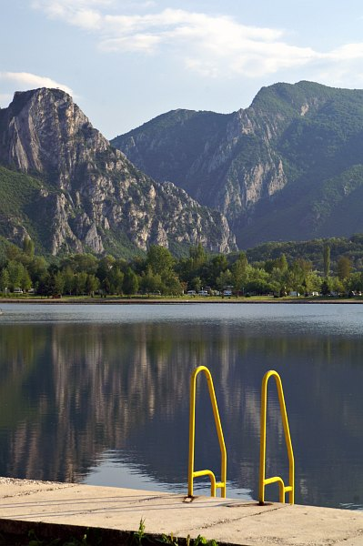 Swimming pool at Saraj, in the outskirts of Skopje, with Matka Canyon in the background